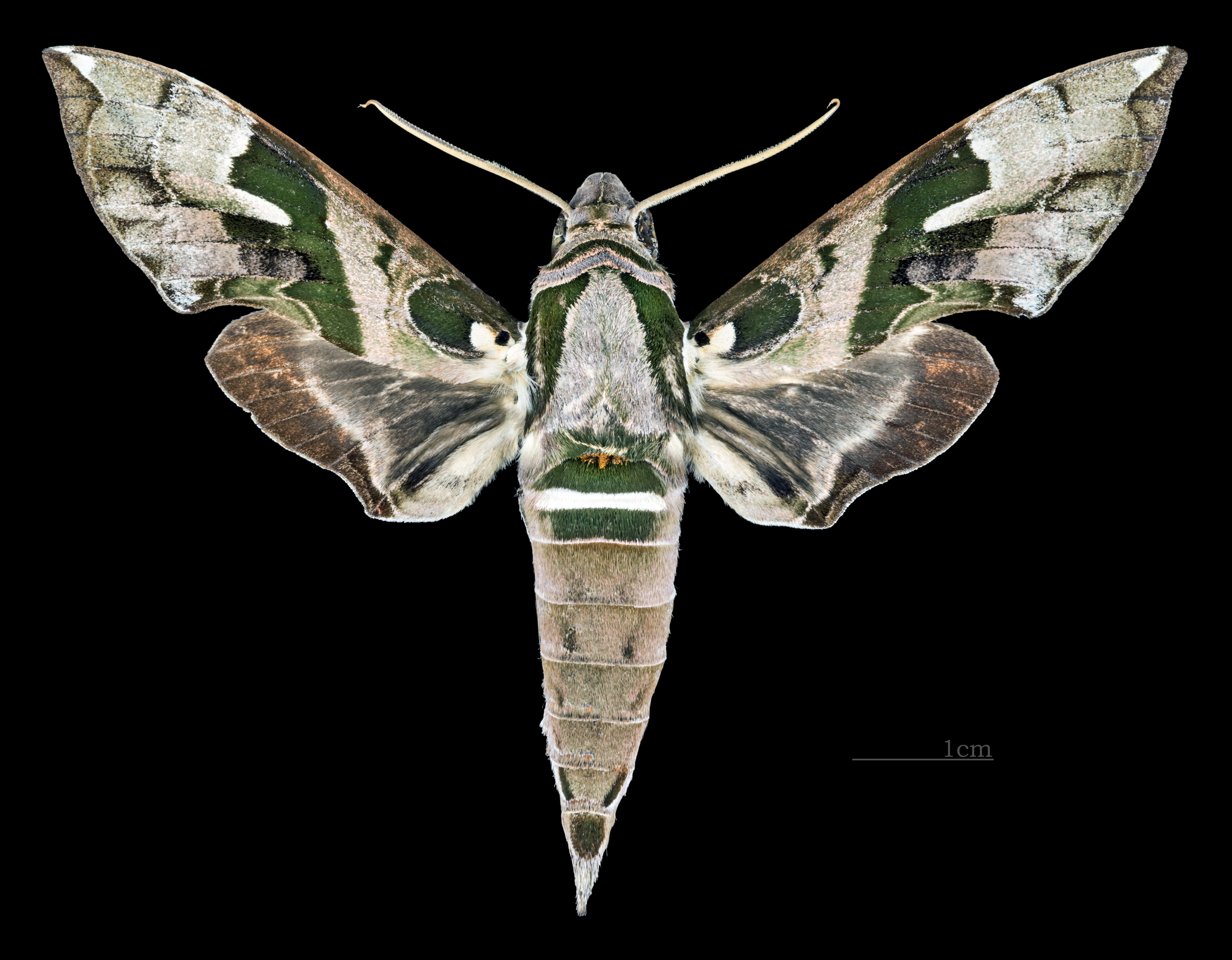 Daphnis dohertyi - Dorsal side Collection of the Mathematician Laurent Schwartz